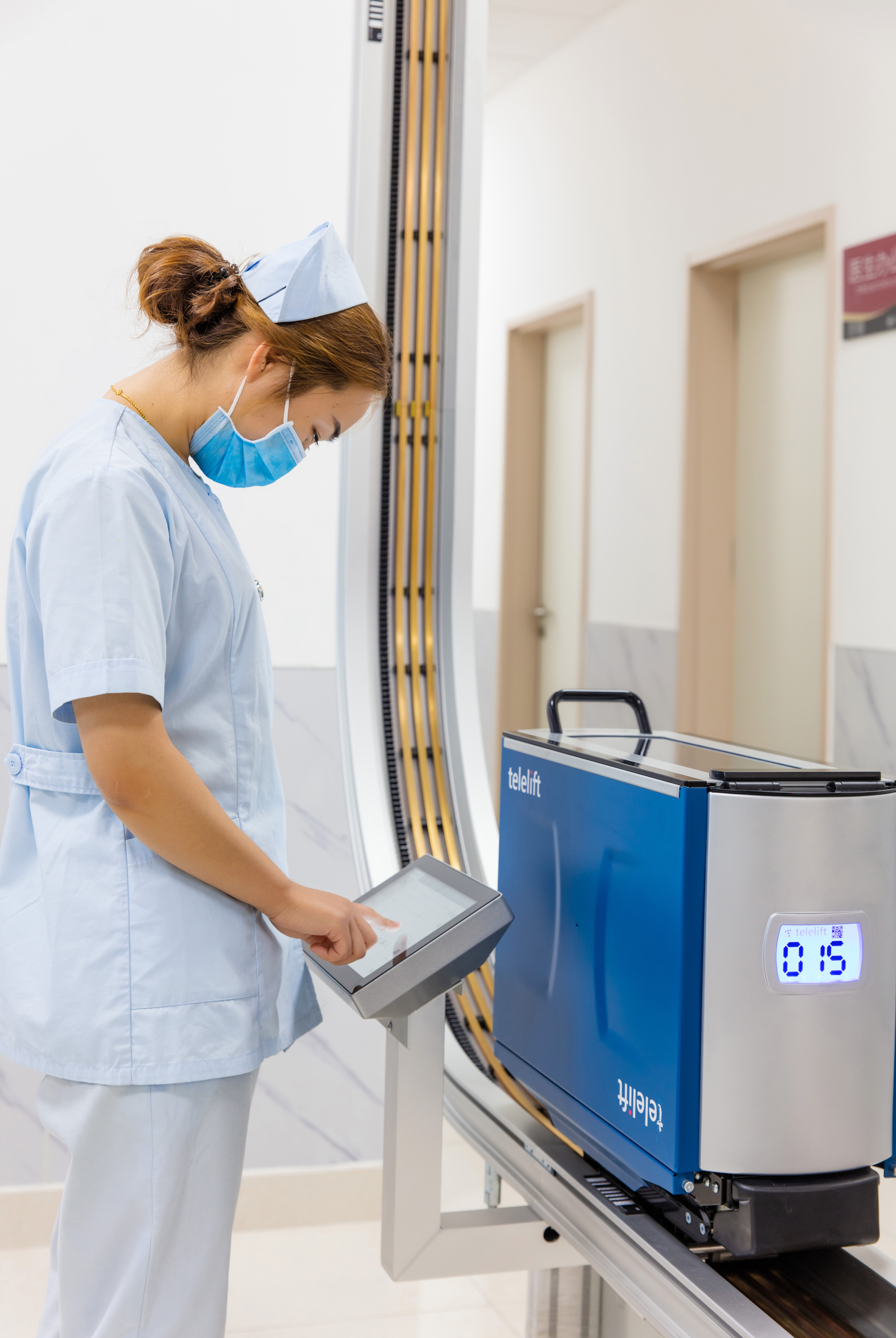 Automated transport of medicine in a hospital with a Telelift logistics solution